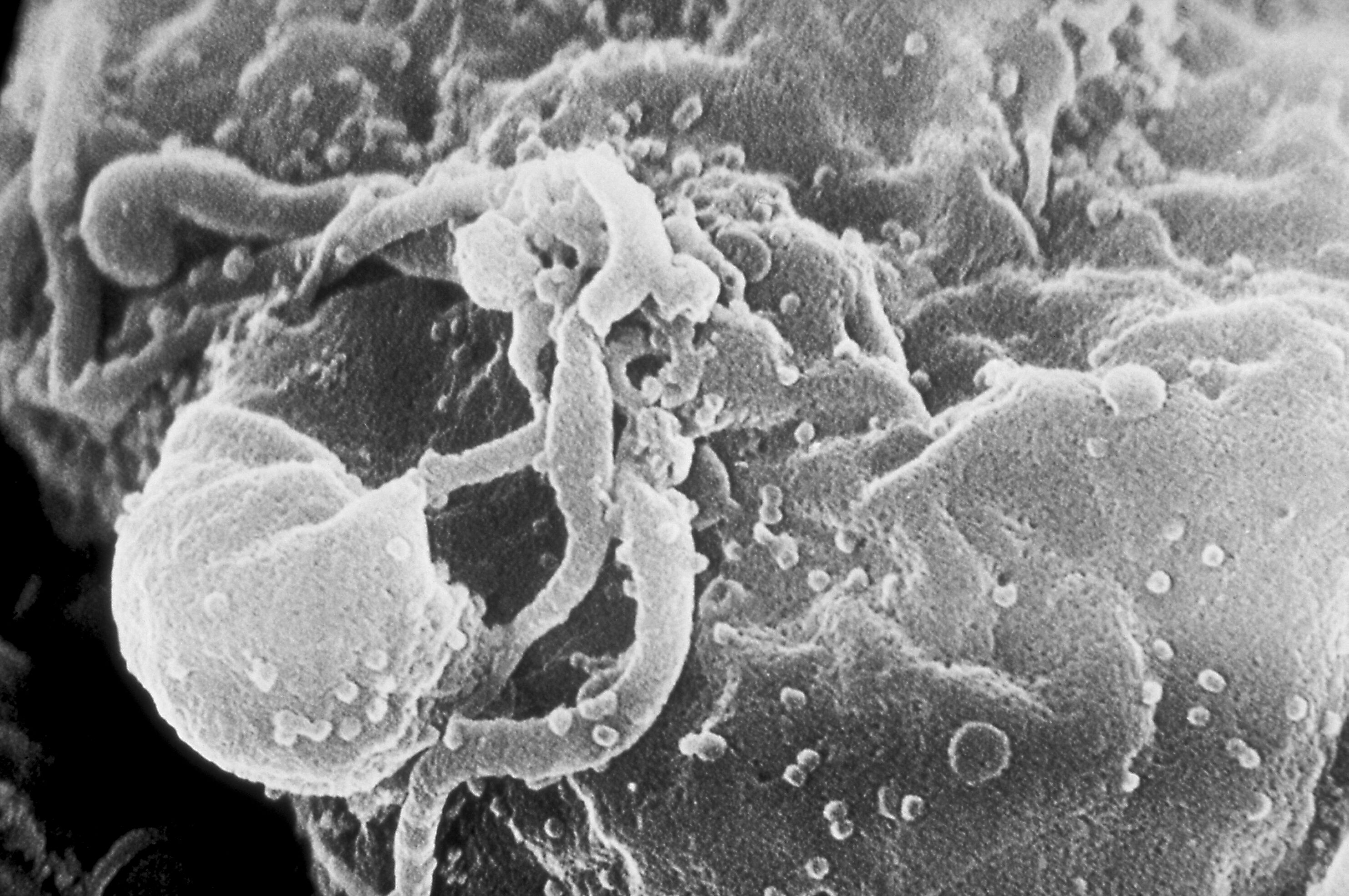 Scanning electron micrograph of HIV-1 budding from cultured lymphocyte. Multiple round bumps on cell surface represent sites of assembly and budding of virions.